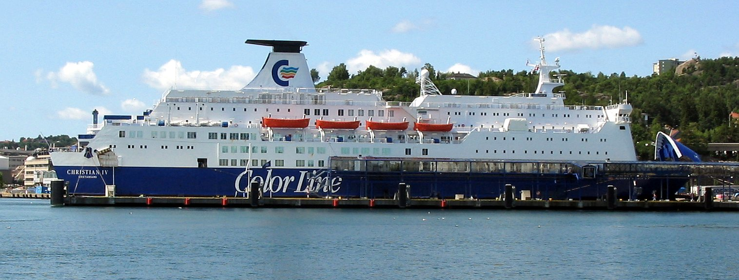 Ferry Christian IV in Kristiansand Norway, 2004